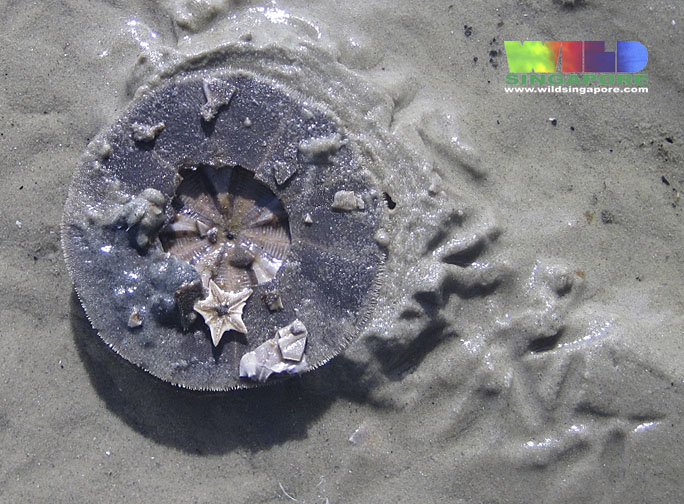 Star shaped bits are seen in the pecked sand dollars (Arachnoides placenta.